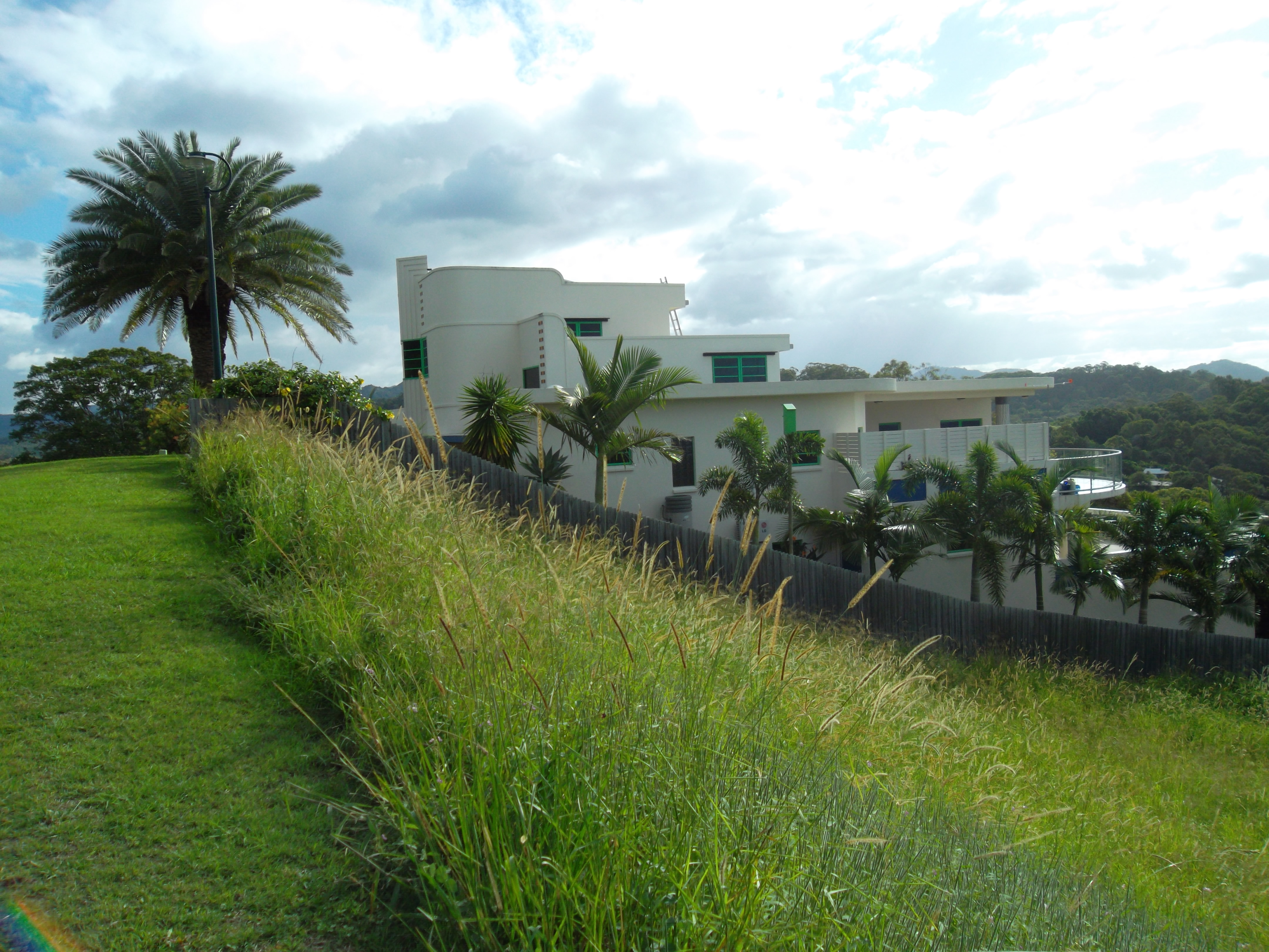 A large private residence in Tongarra Drive, Ocean Shores, NSW.